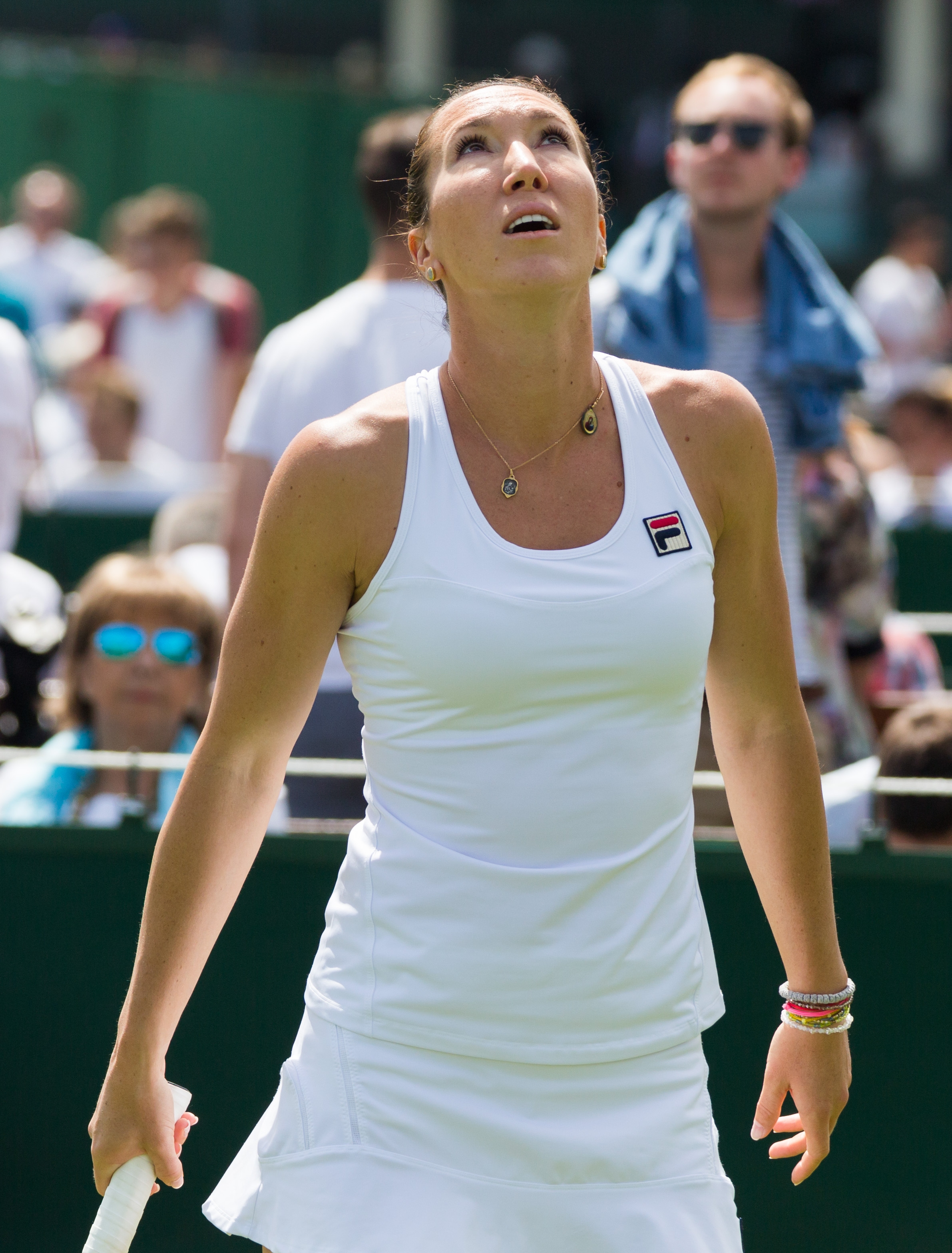 Jelena Janković competing in the first round of the 2015 Wimbledon Championships.